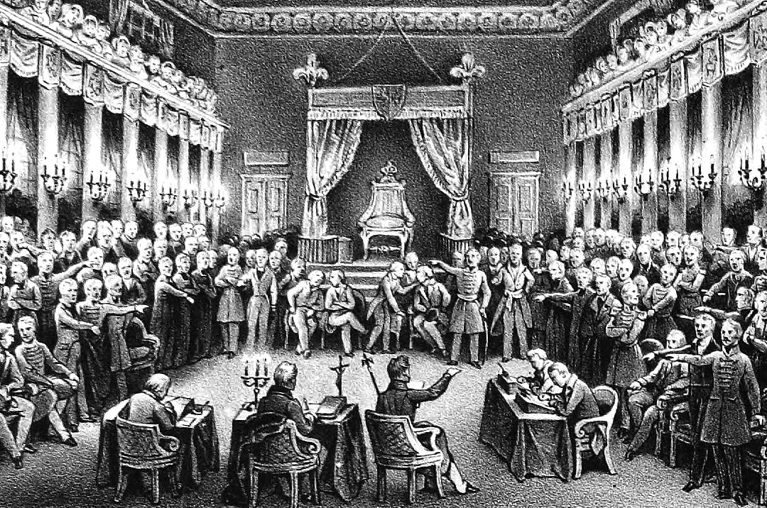 Dethronisation of tsar Nikolay by Polish Sejm in 1831.